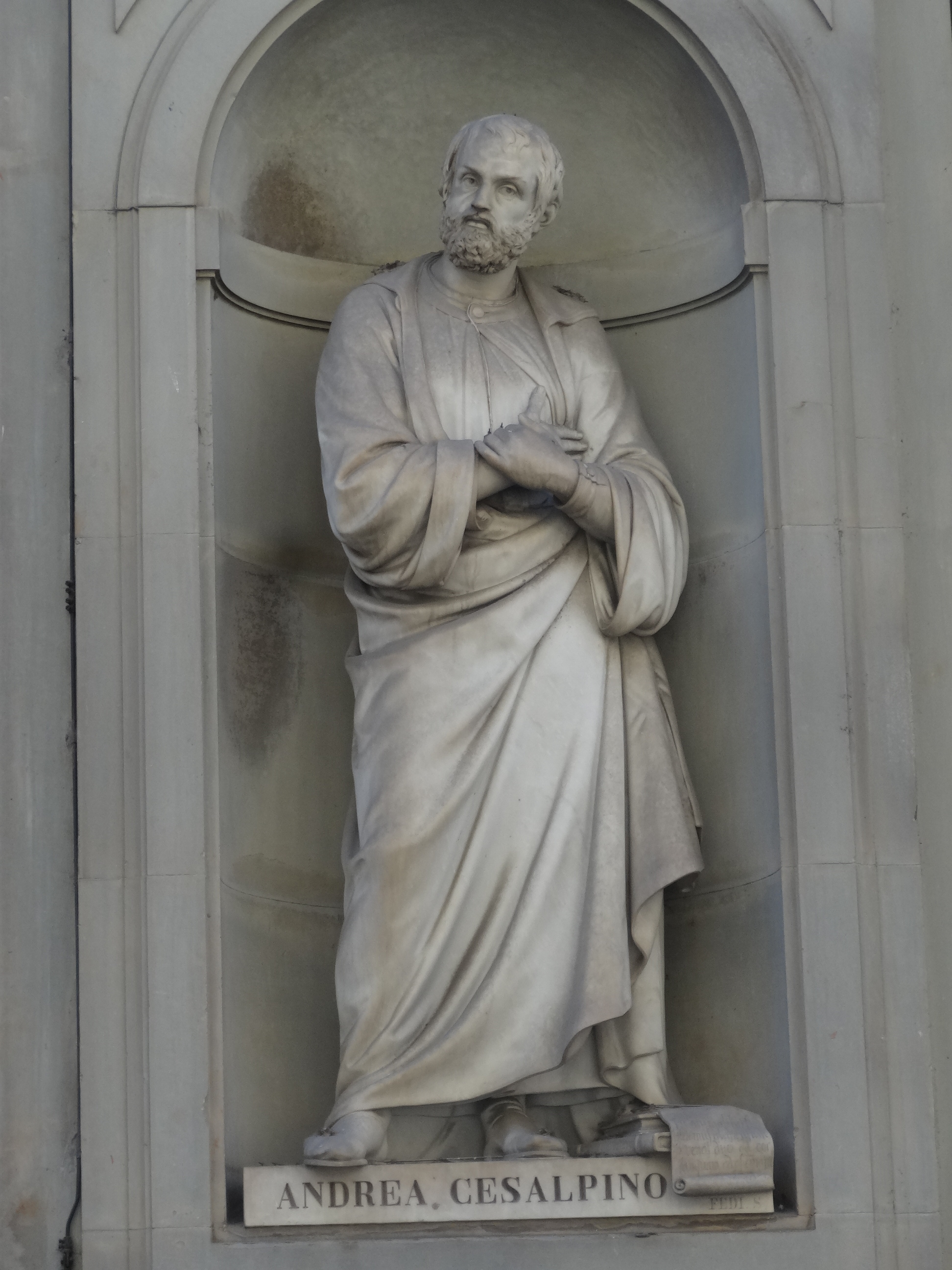 Uffizi - Statues of the Great Florentines